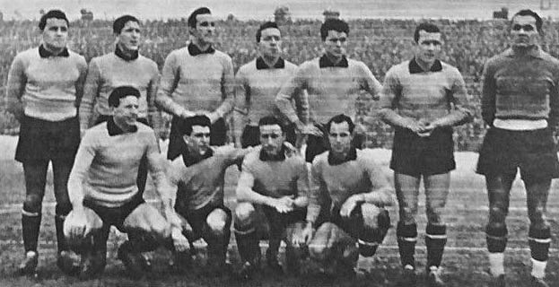 A line-up of Modena F.C. in the 1946–47 season. From left to right, standing: M. Neri, L. Remondini, V. Cassani, R. Brighenti (I), I. Bonci (II), W. Del Medico, I. Corghi; crouched: A. Zecca, S. Romani, E. Malinverni, R. Braglia.